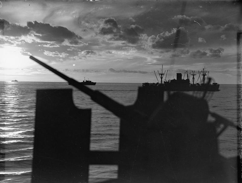 8th Army Victory Helps Malta- Convoys, Protected From Libyan Air Bases, Bring Enough Supplies For Months. 4 December 1942, in the Central Mediterranean, Aboard HMS Euryalus. A striking view of a Malta bound convoy and escort at sunset as seen from HMS EURYALUS, one of the escorting warships.